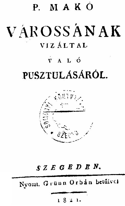 Scanned book jacket "The devastation of the city of Makó by the River Maros" by István Gilitze, published in 1821.